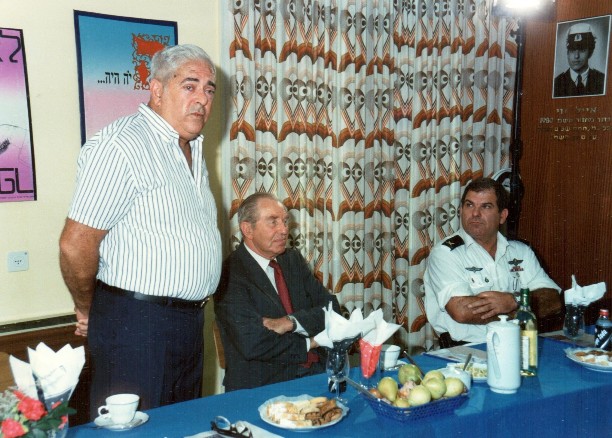 Israel Defense Forces